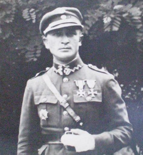 Photo of Edward Pisula